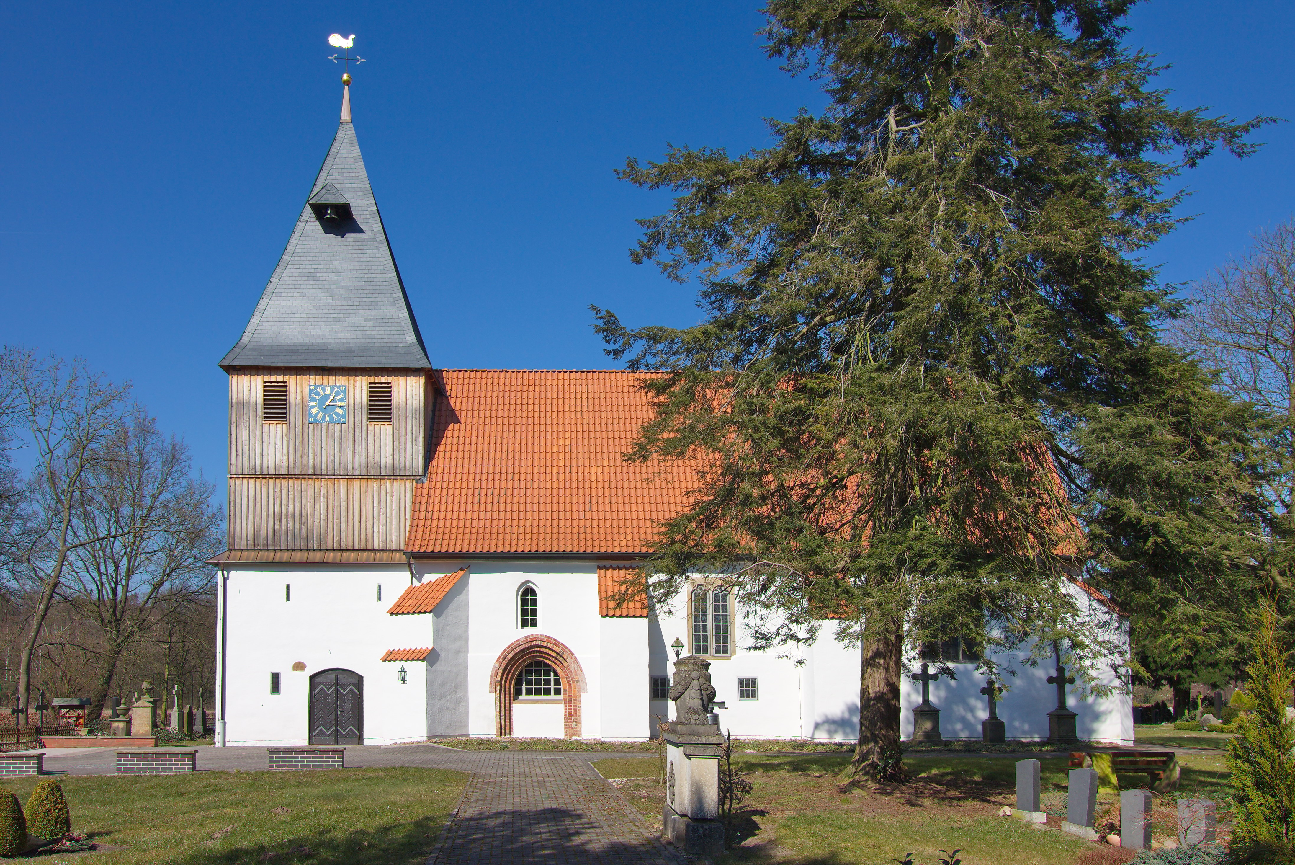 St. Katharina-Kirche in Steyerberg, Niedersachsen, Deutschland.